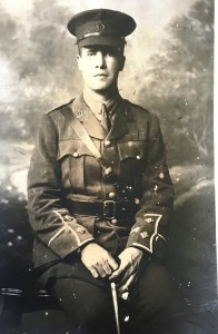 Lt Edward (Ted) Oswald Marks who joined the Royal Army Medical Corps, during World War I.